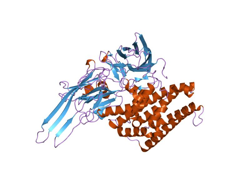 Cartoon representation of the molecular structure of protein registered with 1i5p code.